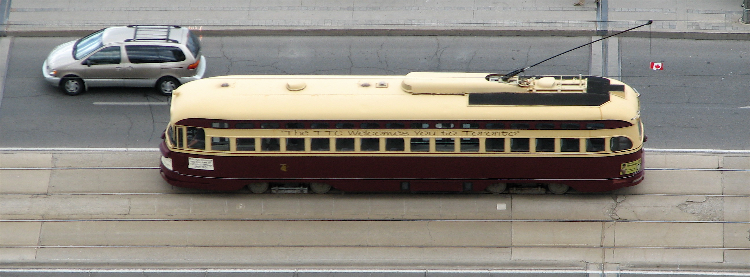 On Canada Day the TTC had some of their old streetcars running.